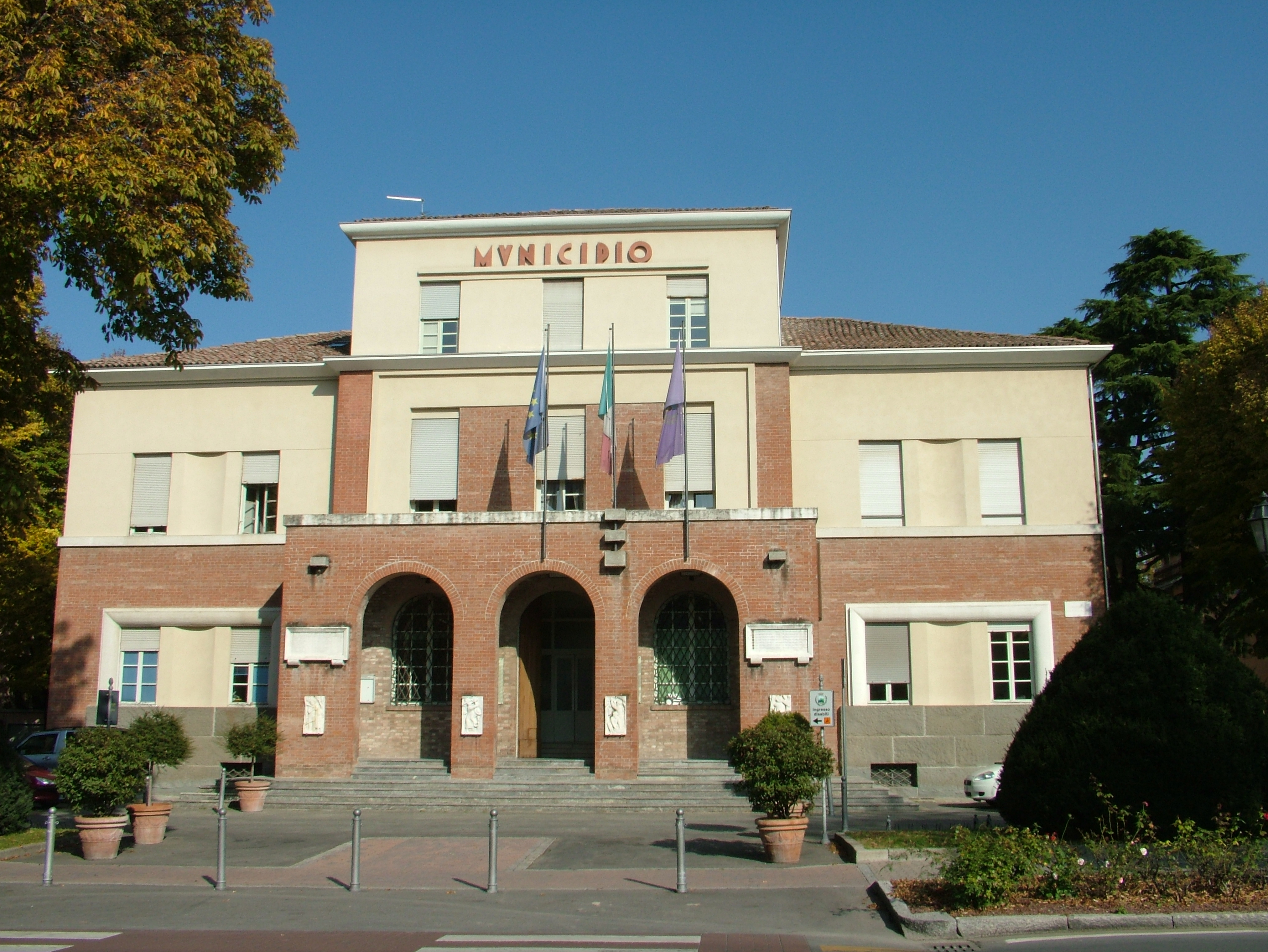 Italy, province of Parma, Collecchio, the Town Hall.